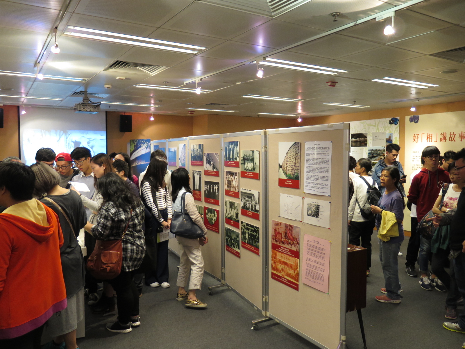 Castle Peak Hospital Archive Museum